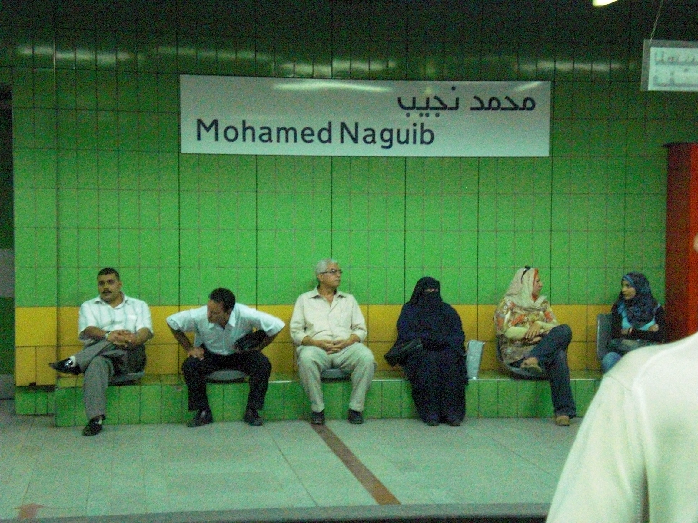 Mohammed Naguib Metro Station in Cairo